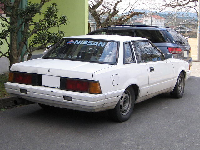 Nissan "Slivia" (S110 / 3rd generation)